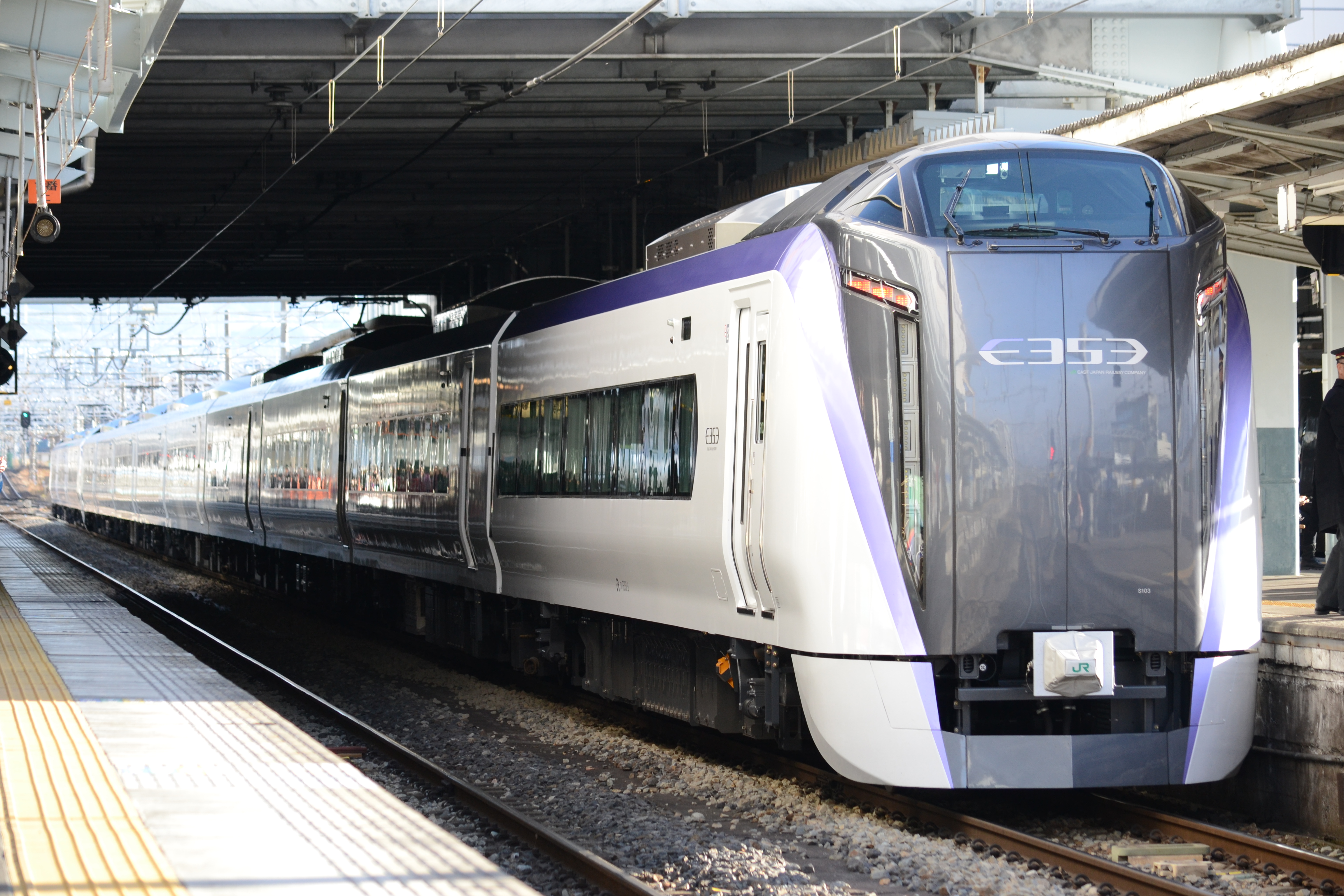 A JR East E353 series EMU at Matsumoto Station on a Super Azusa service Nikon D3100